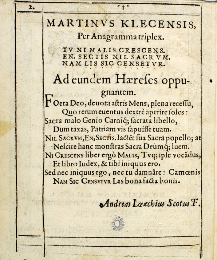 Andrzej Lechowicz (anagram) from "Proca..." (Kraków 1607)